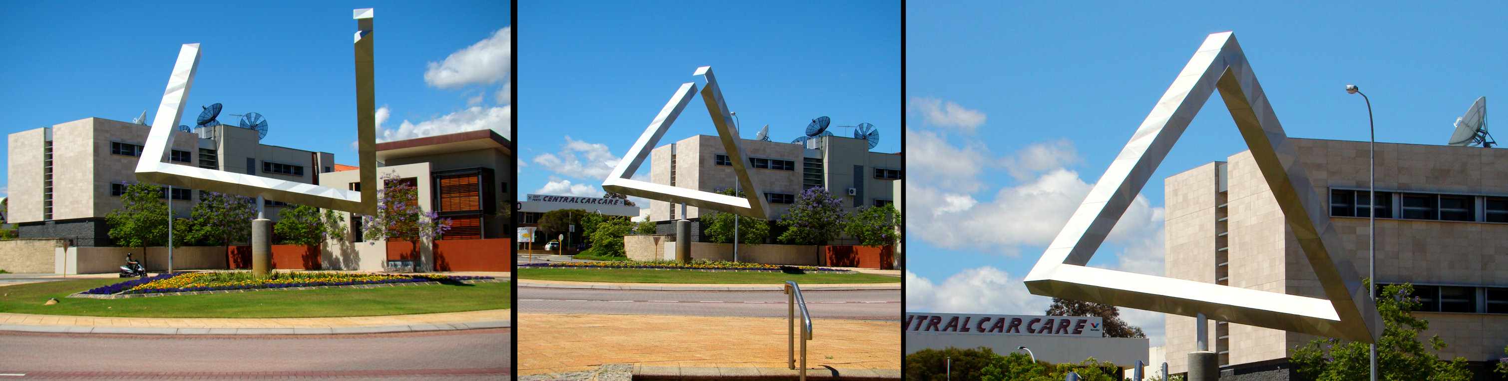 Impossible Triangle sculpture, put together by Brian MacKay & Ahmad Abas, located in the Claisebrook Roundabout, East Perth, Perth, Western Australia. Seen from the correct angle, this sculpture seems to be a Penrose triangle